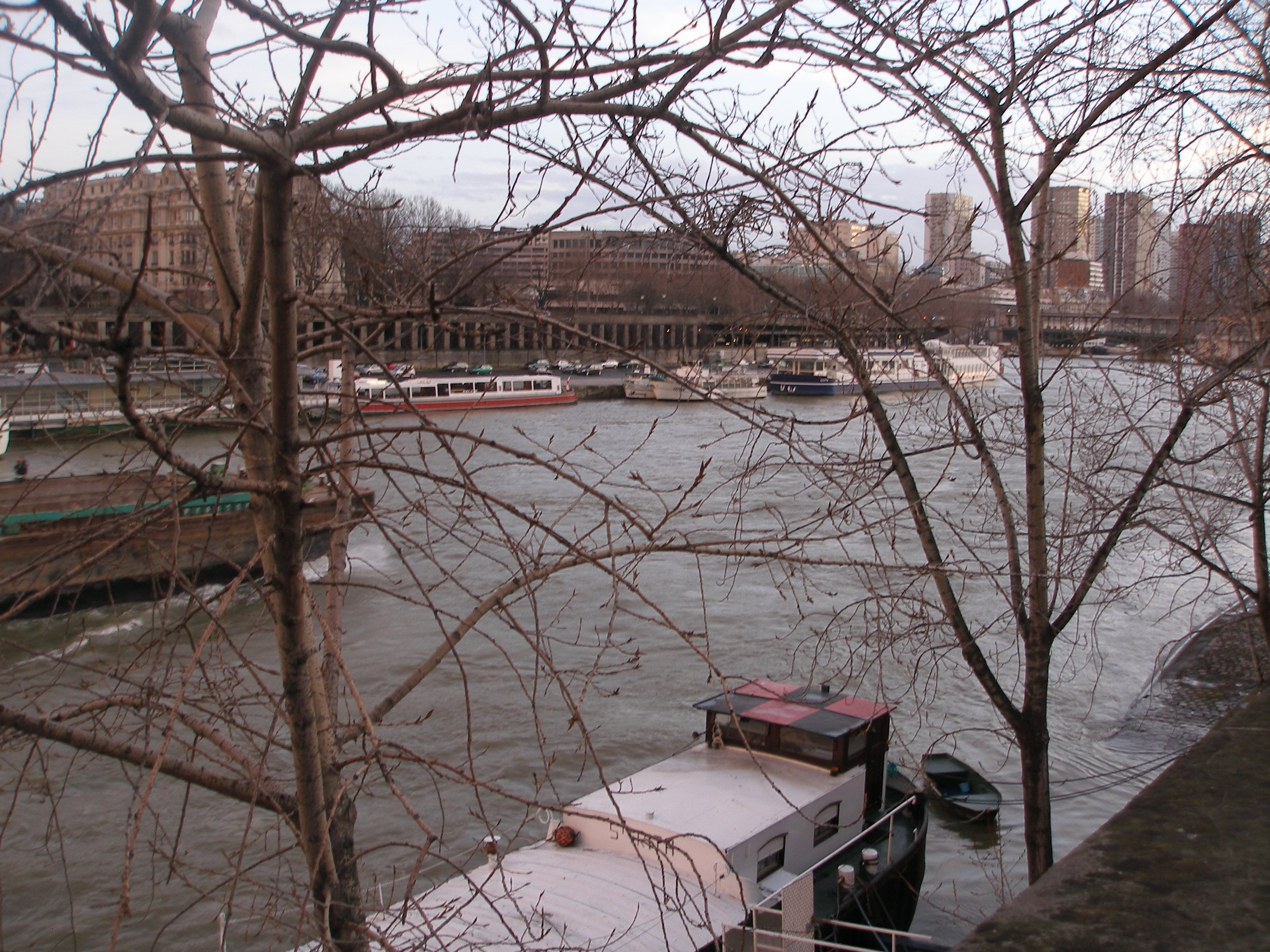 The Seine river